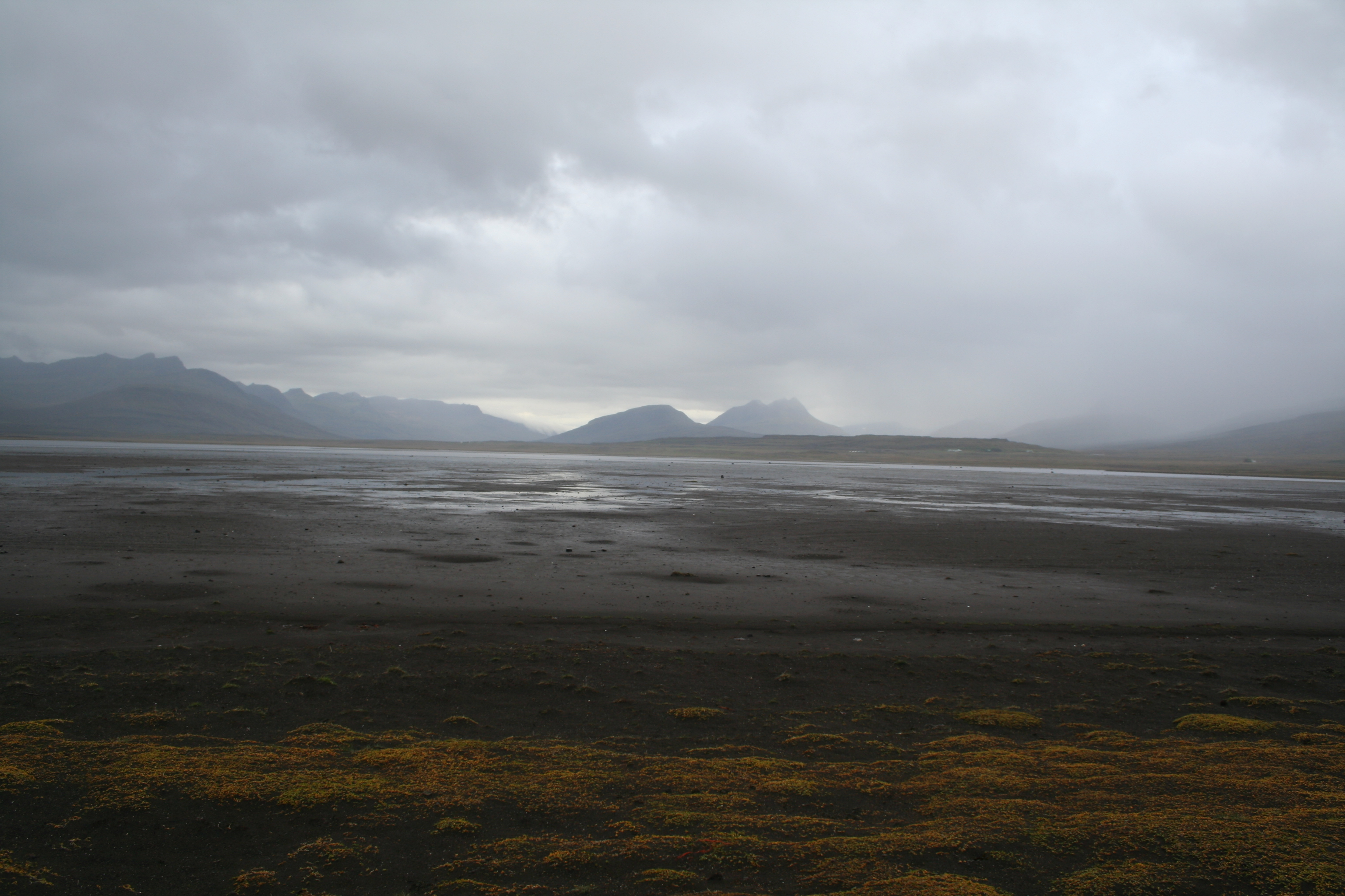 Sandur between Vík and Höfn, Iceland